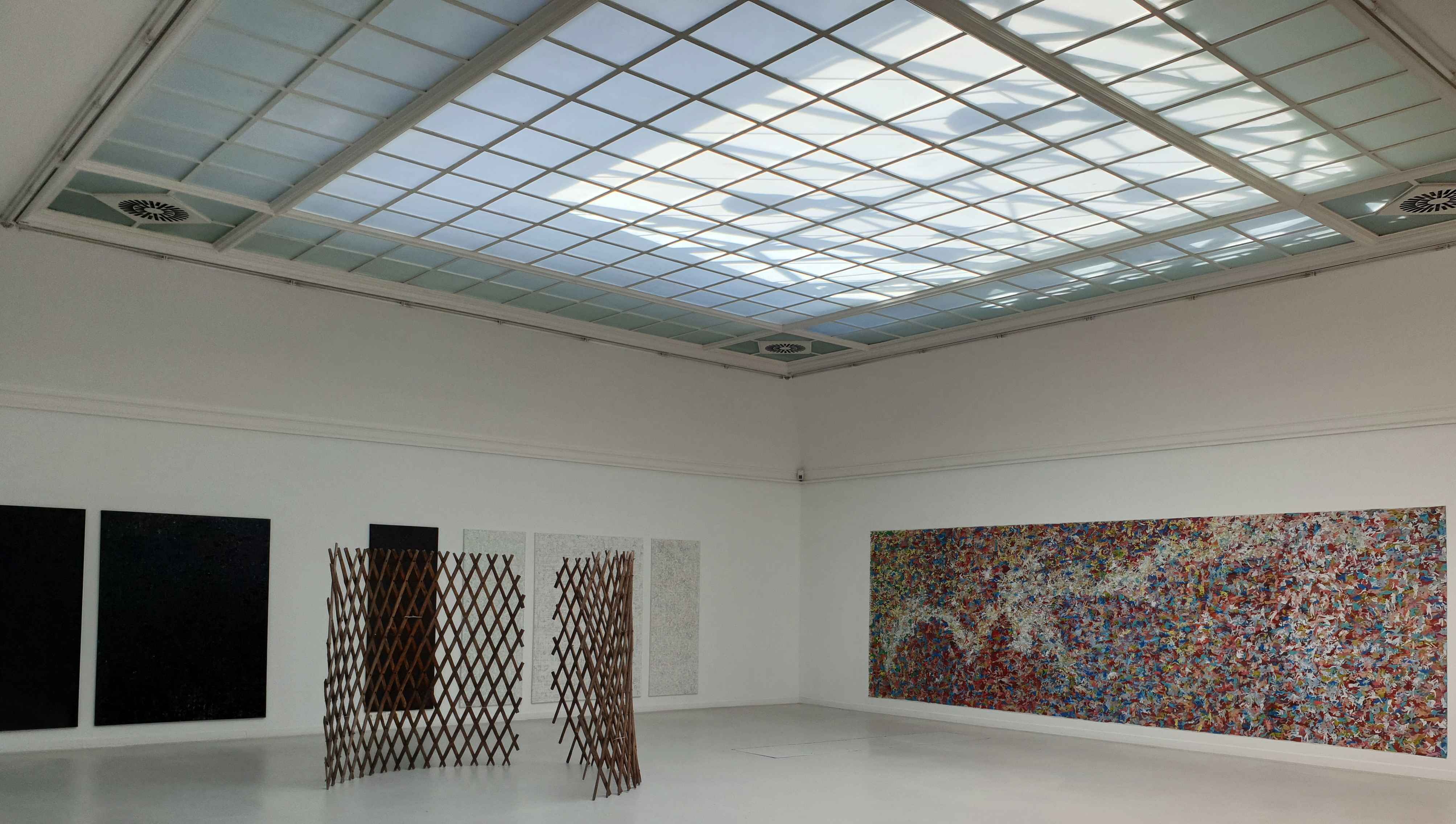 «UNENDLICH» Exhibition by 'OTGO' Otgonbayar Ershuu in Kunstverein Konstanz, Germany 2019